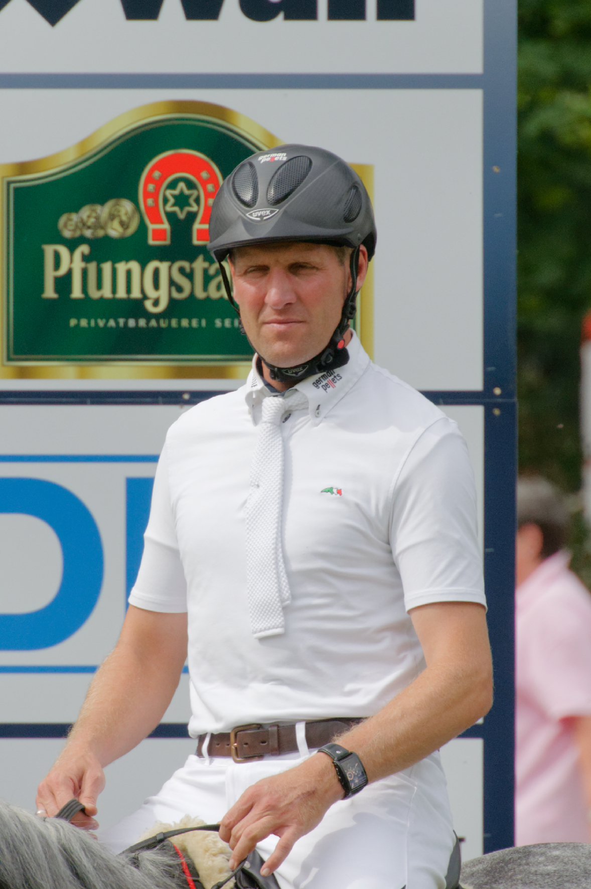 Internationales Pfingstturnier Wiesbaden 2014 The making of this document was supported by the Community-Budget of Wikimedia Germany.